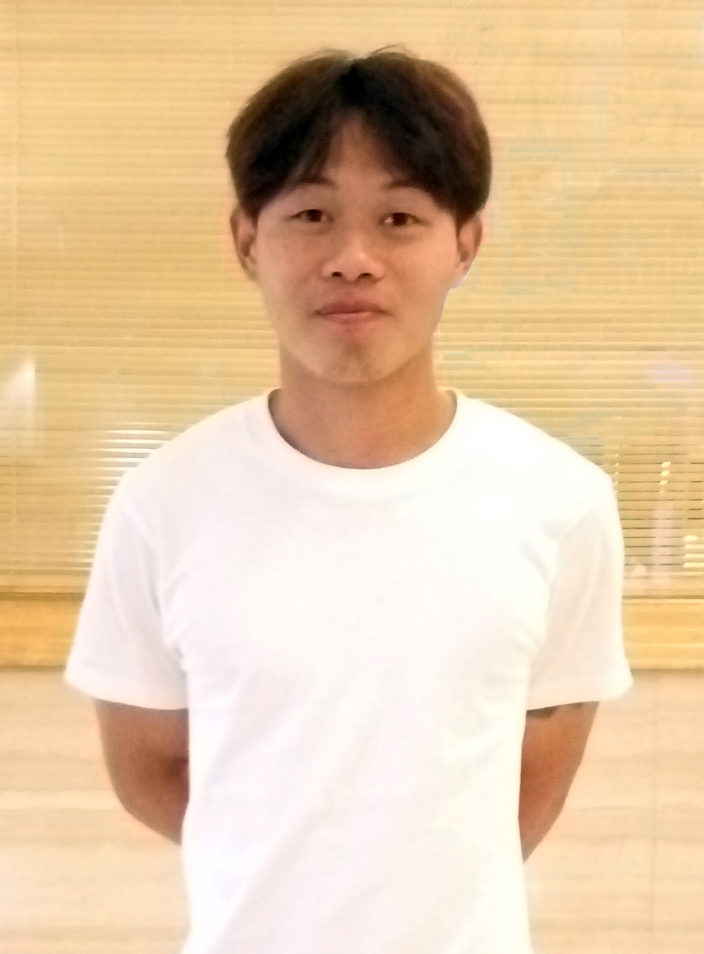 Taiwan Football Player Ko Yu-ting This is a retouched picture, which means that it has been digitally altered from its original version. Modifications